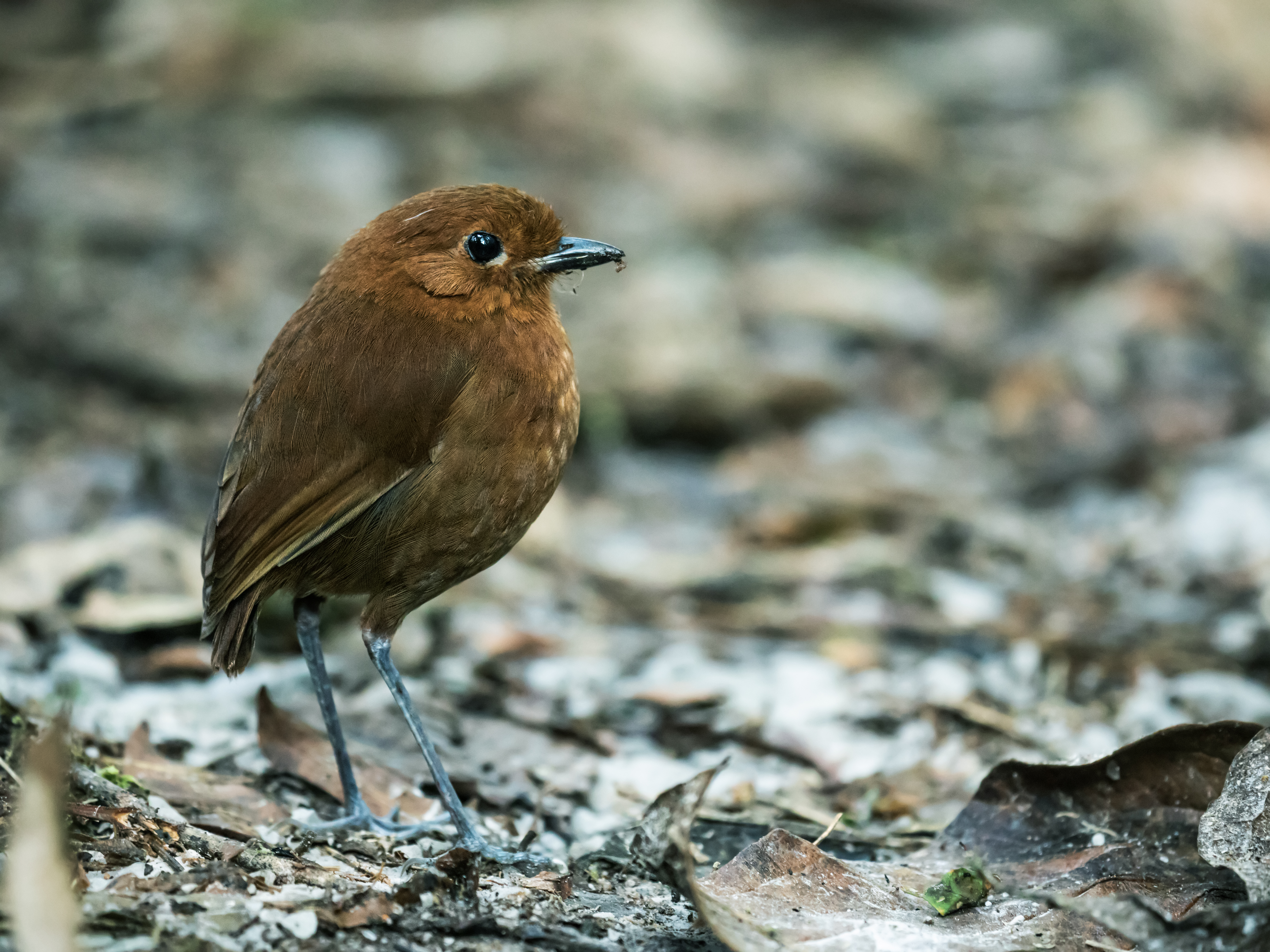 Chestnut Antpitta from Owlet Lodge, Abra Patricia, Amazonas, Peru.